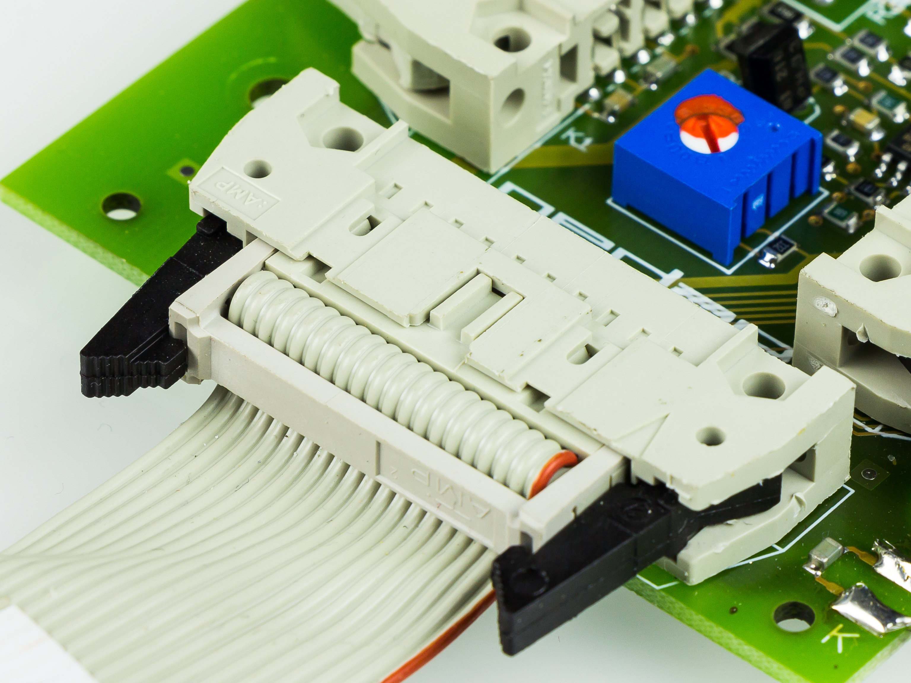 Nedap ESD1 - AMP connector